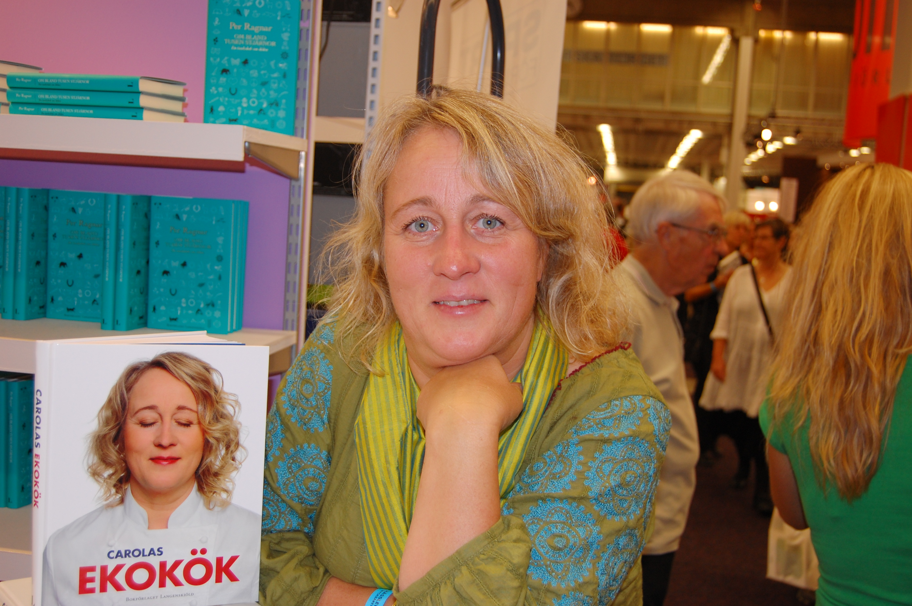 Image from Gothenburg Book Fair 2009